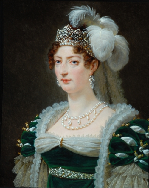 Marie Thérèse of France (1778-1851), duchess d'Angouleme and dauphine of France